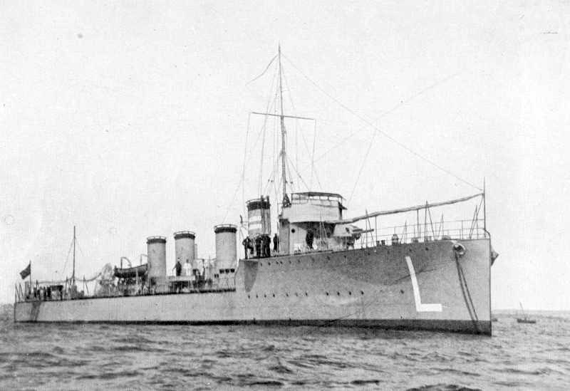 Destroyer "Lazaga" (L), launched in Cartagena on March 6, 1924, entered service on August 17, 1925. He fought in the civil war on the Republican side until March 1939 which would be recovered in Bizerte by nationalists. Would cause lower on February 20, 1961.